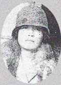 Na Hye-sok, 1926